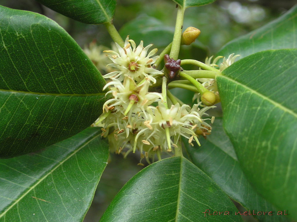 Local name: Pala Family: Sapotaceae Distribution: Common in scrubs of tropical India and China. Small trees latex milky, leaves coriaceous, broadly obovate, obtuse or emarginate, base cuneate, Flowers scented,6-7mm across, white, in axilary fascicles;Calyx lobes 6 glabrous, imbricate, corolla lobes 18, in 3 rows, tube short,stamens 6, staminodes short, glabrous, lanceolate bifid, staminodes sub petaloid,anthers extrorse; ovary 6 celled, hirsute, fruit an ellipsoid berry reddish-yellow,1cm long edible. Wood red and very hard.